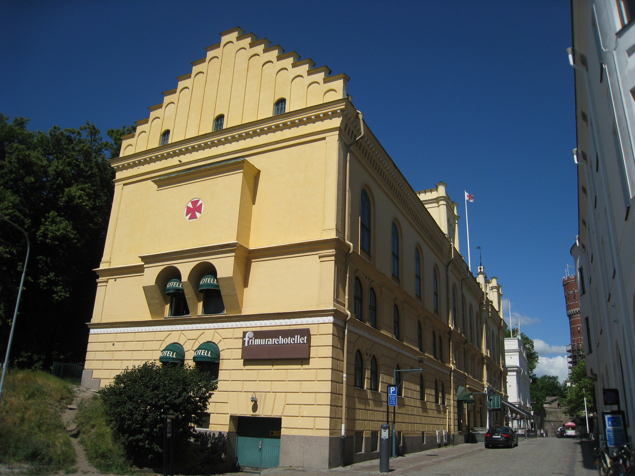 Frimurarehotellet, Larmtorget, Kalmar, Sweden.